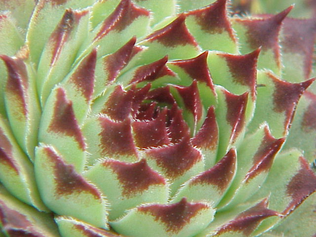 Species: Sempervivum calcareum Family: Crassulaceae Image No. 1